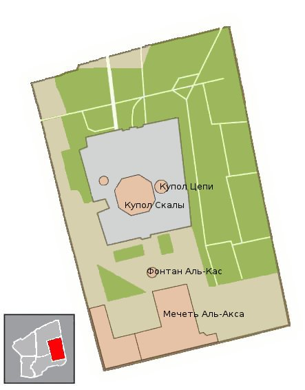 Structures on the Temple Mount